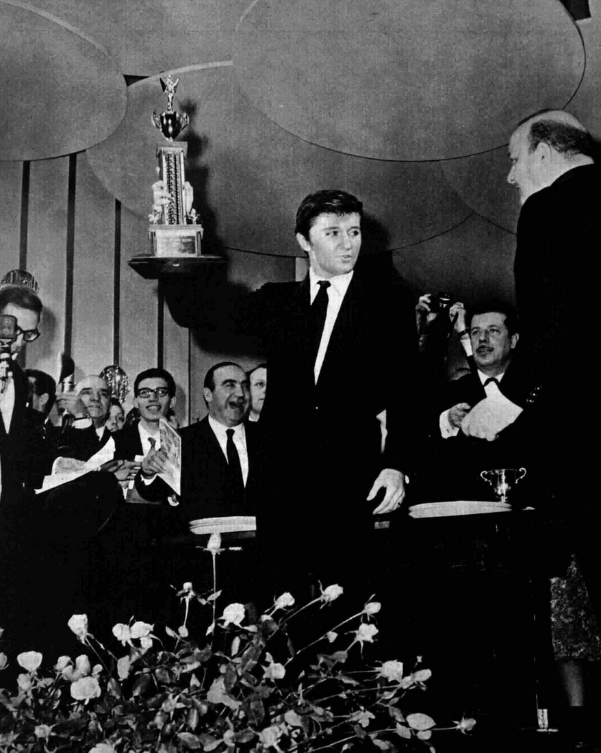 Italian singer Bobby Solo awarded at the Sanremo Music Festivsl